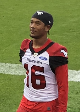 Royce Metchie, defensive back for the Calgary Stampeders.